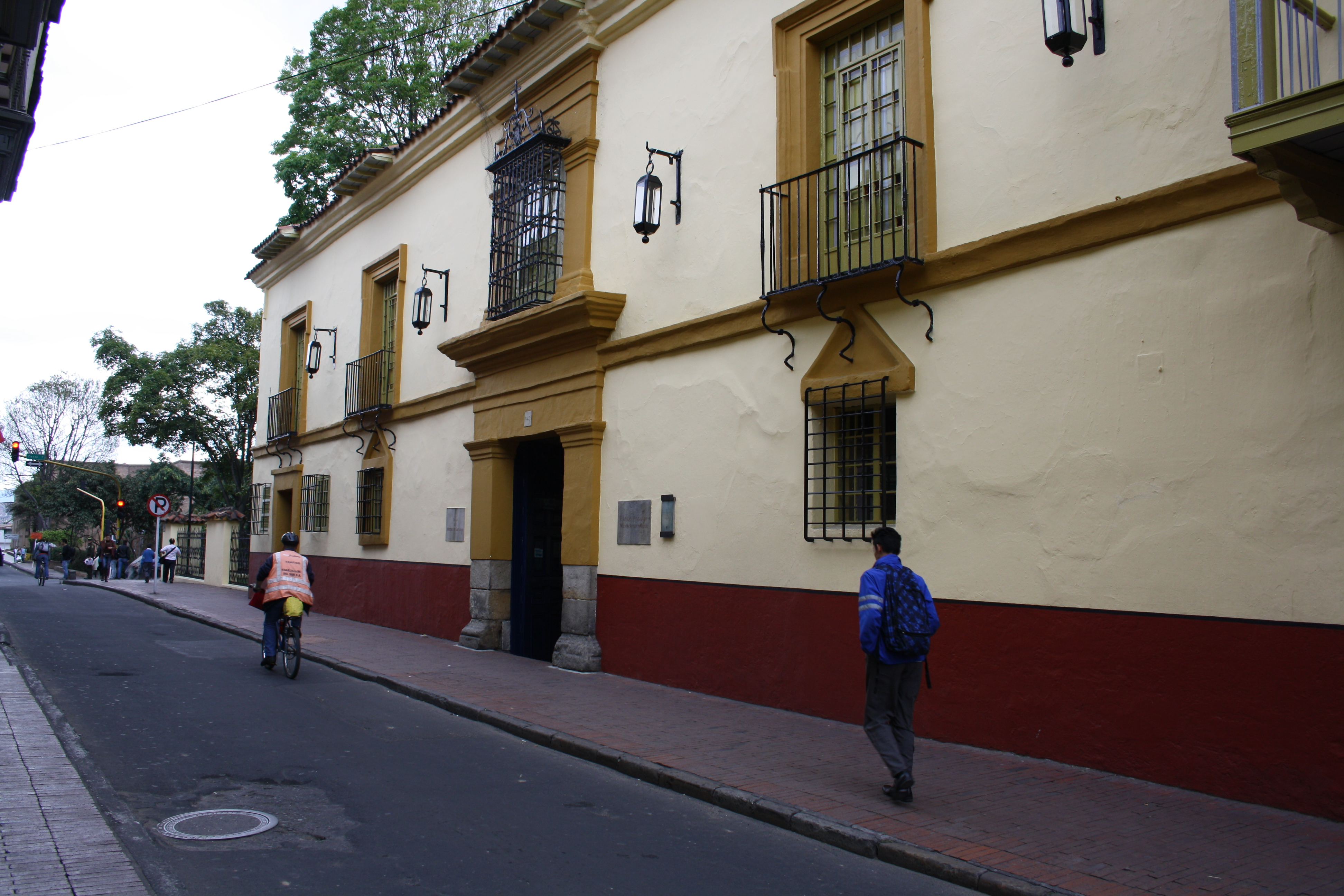 Casa del Marqués de San Jorge, fachada